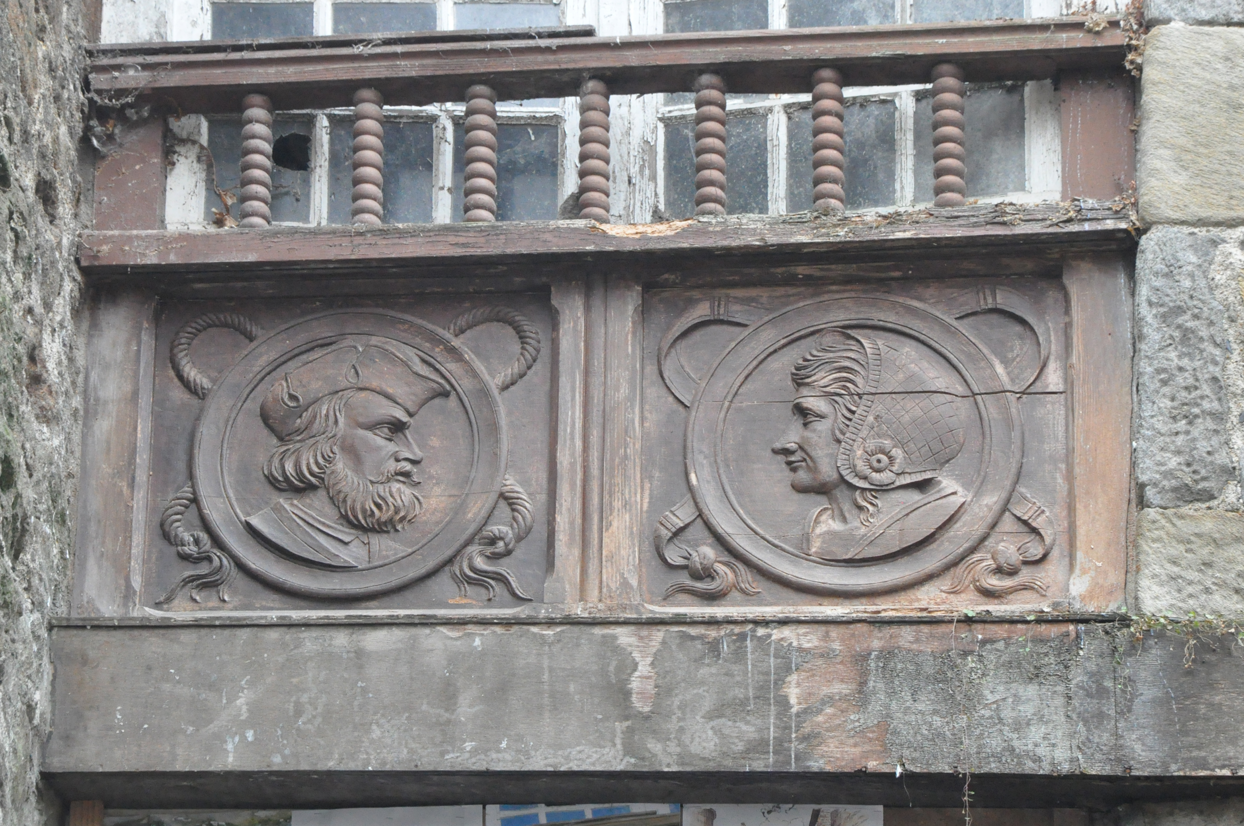 Jacques Cartier and his wife, relief in Saint-Malo (France, Brittany)